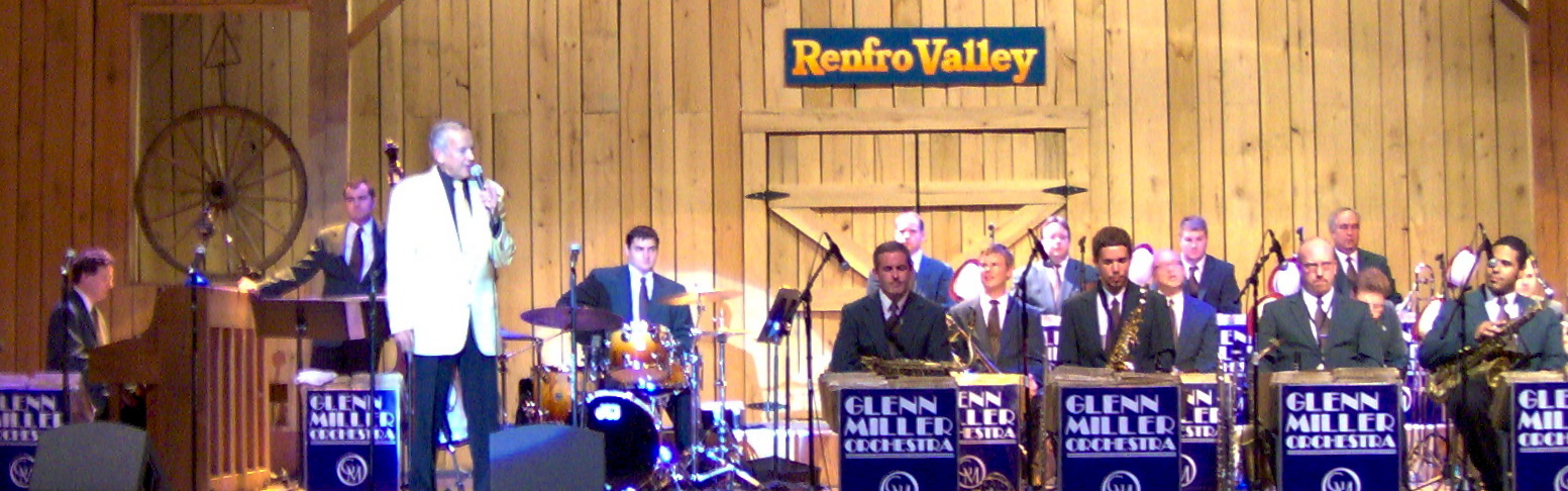 Glenn Miller Orchestra with Larry O'Brien (director) performing at Renfro Valley, Kentucky.